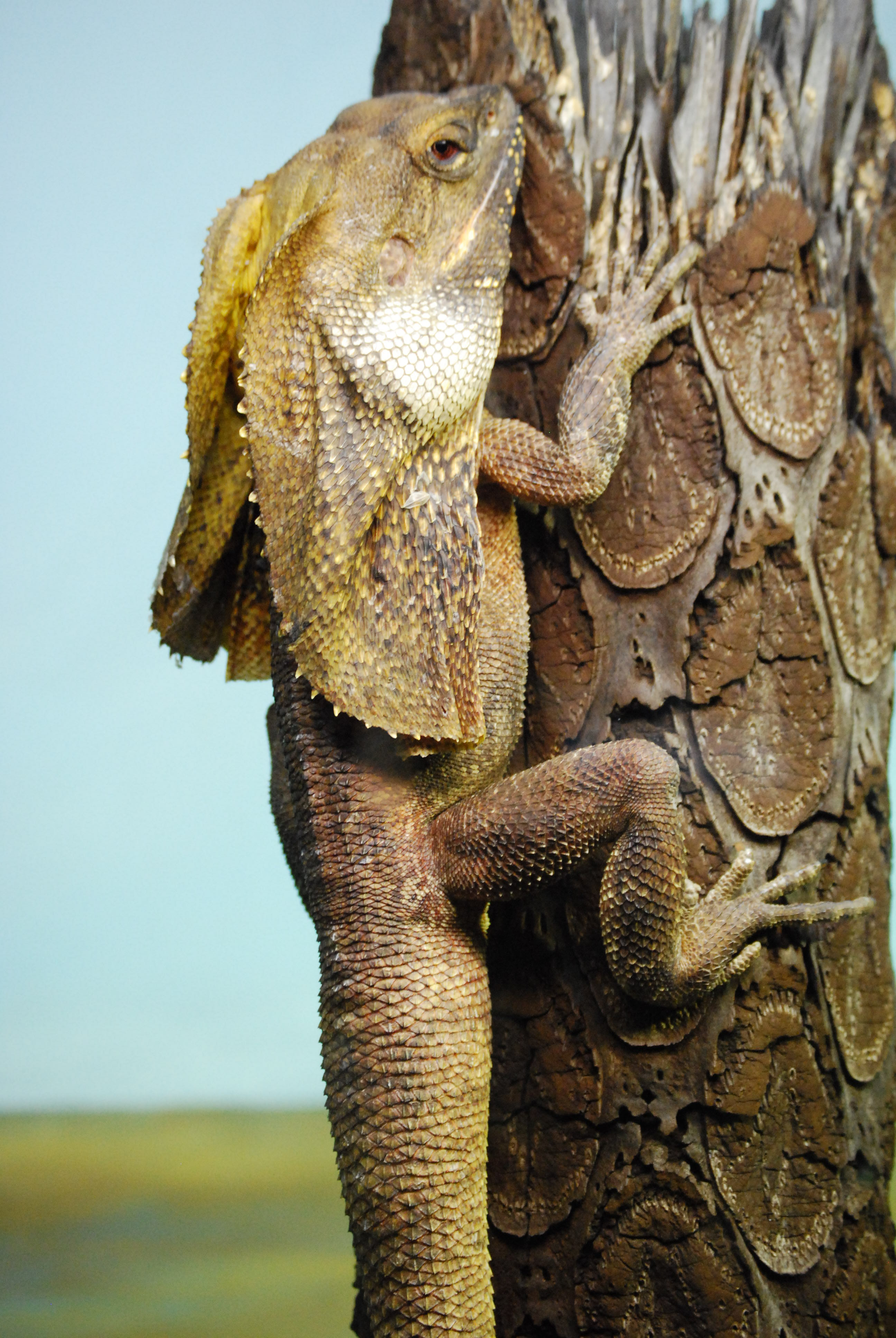 A Frill-necked Lizard at Taronga Zoo, Sydney, Australia.